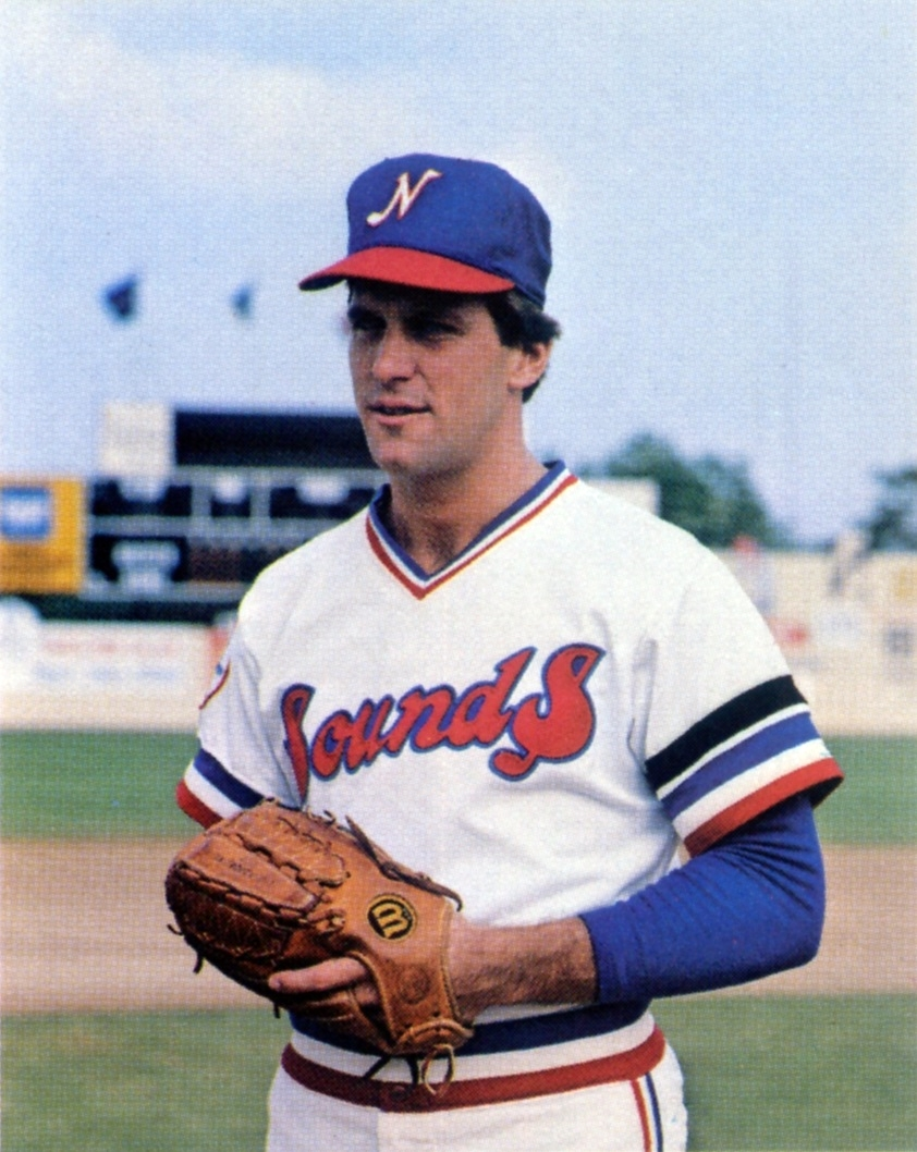 Pitcher Tom Filer of the 1980 Nashville Sounds Minor League Baseball team of the Southern League